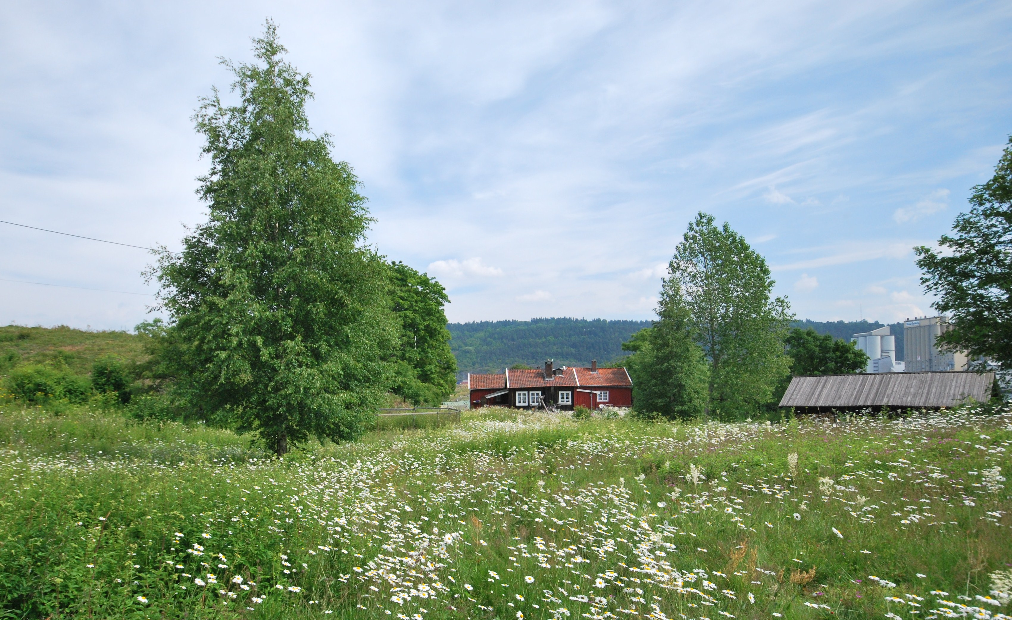 The farm on Bleikøya, Oslo, where the same family has lived since the 1700's.